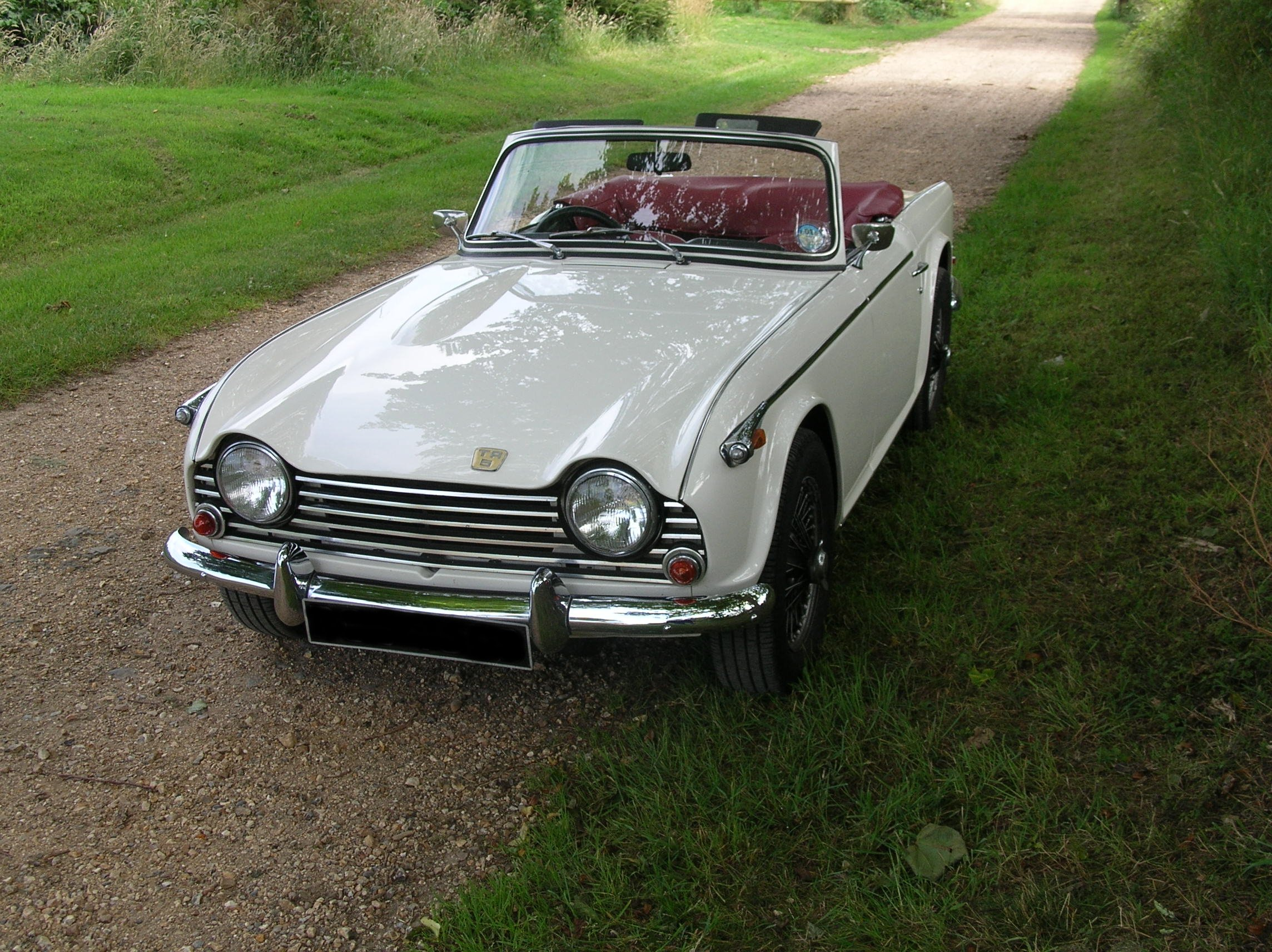 The front of a 1969 Triumph TR5.